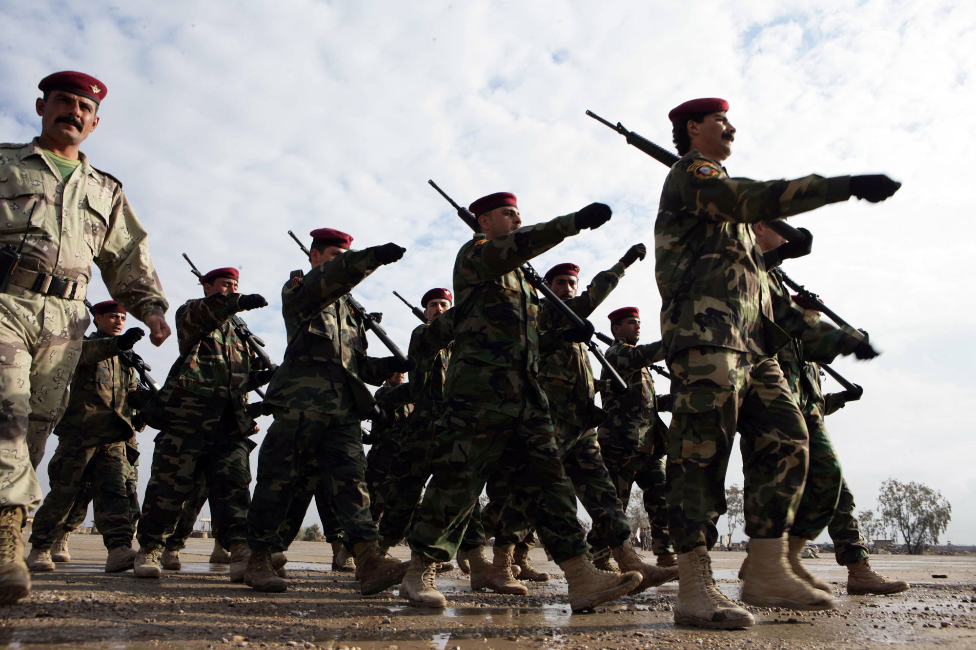 Original Caption: "Iraqi Soldiers with 2nd Regiment, 2nd Brigade, 1st Division, practice marching for their graduation ceremony aboard the Iraqi training center in Al Anbar province, Iraq, Feb. 15. The Iraqis are trained by U.S. Marine Military Transition Team, 2nd Battalion, Regimental Combat Team 1, to operate in the Northern part of Iraq. RCT-1 is deployed with Multi National Force-West in support of Operation Iraqi Freedom in the Al Anbar province of Iraq to develop Iraqi security forces, facilitate the development of official rule of law through democratic reforms, and continue the development of a market-based economy centered on Iraqi reconstruction. Photo by Lance Cpl. Albert F. Hunt."